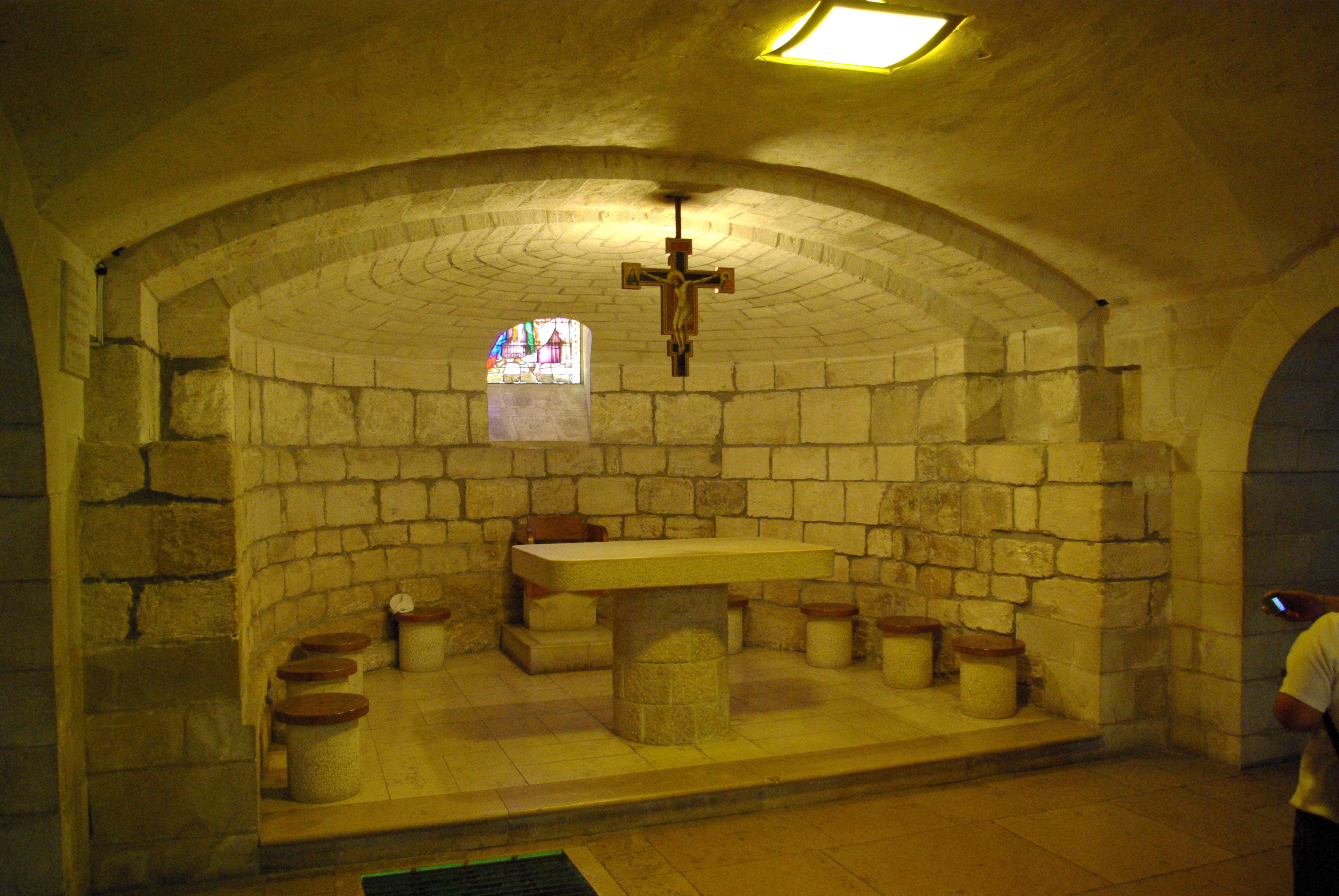 Church of St. Joseph, Nazareth, Israel